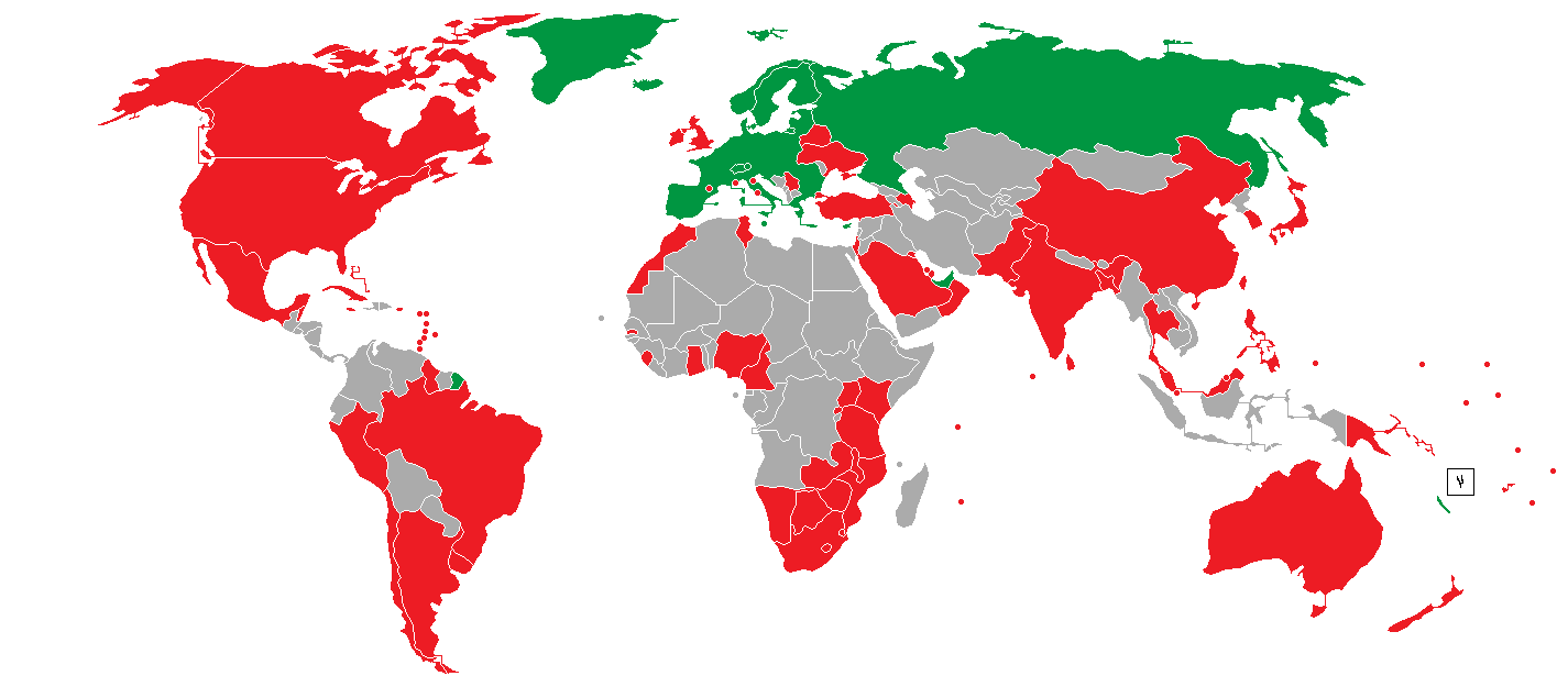 Visa policy of Vanuatu Vanuatu Visa free (90 days) Visa free (30 days)